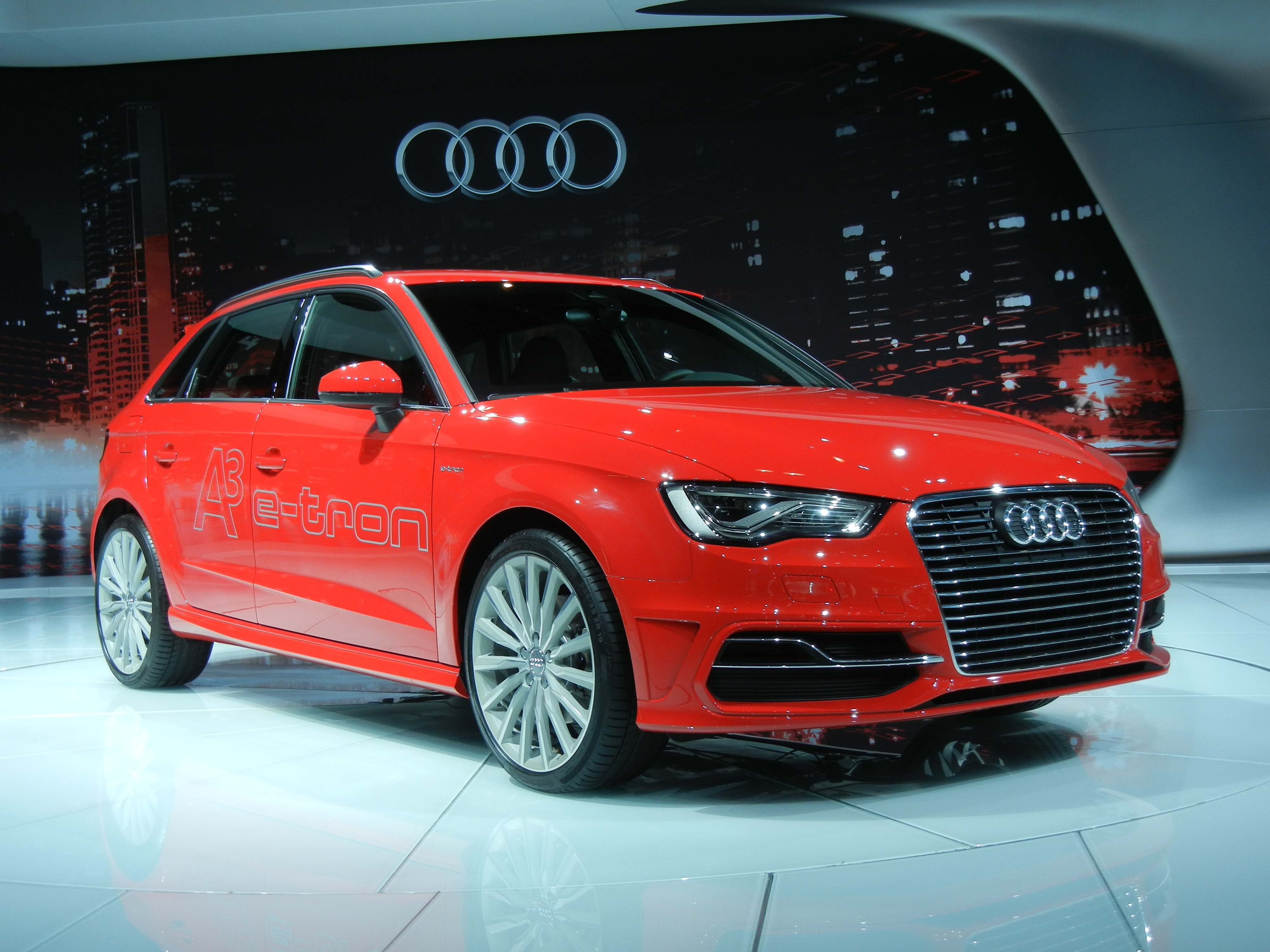 Audi A3 e-tron at 2013 LA Auto Show